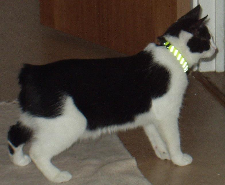 Not all cats have tails, Manx is in general a naturally tailless cat breed. This cat was named Minus as a nickname for Minus-Tail. She is a Manx and mother to: Beatrice, Dante, Beatrice 1 week, and alternative picture.